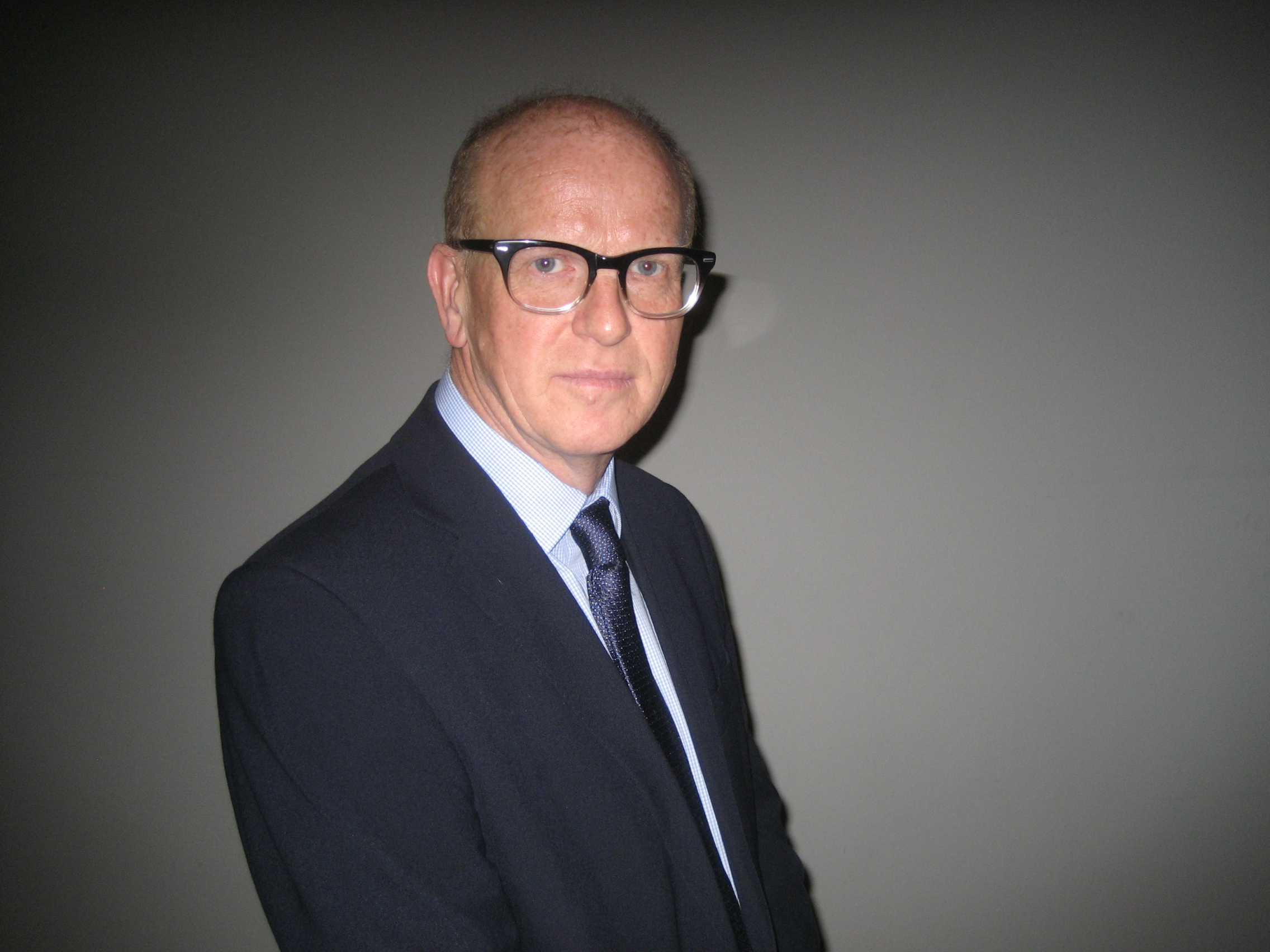 Charles Leadbeater in Cape Town (Febr. 2014)